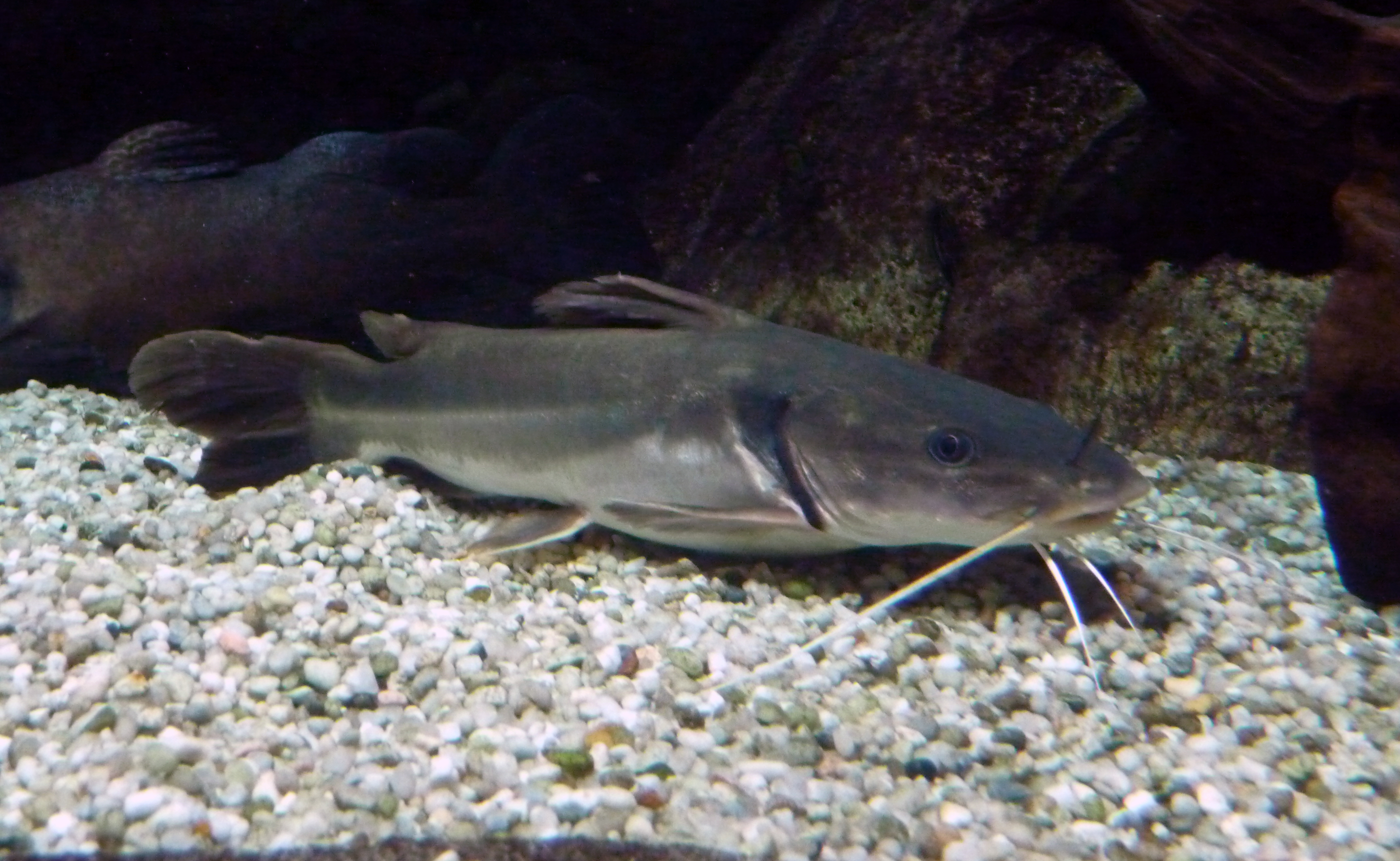 Ameiurus melas